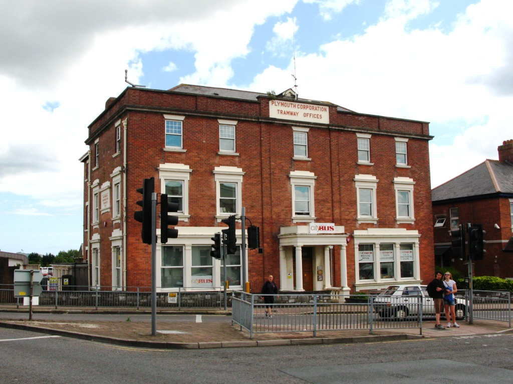 The old Plymouth Corporation Tramways offices at Milehouse are still used as the headquarters of Plymouth Citybus.